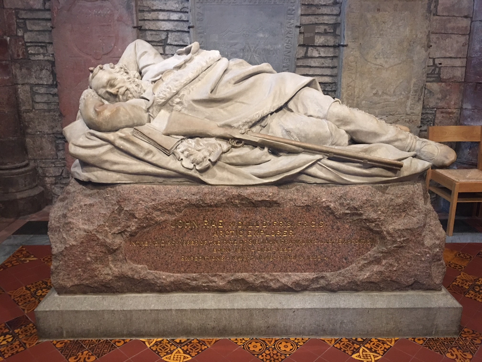 John Rae memorial in Kirkwall Cathedral, Orkney